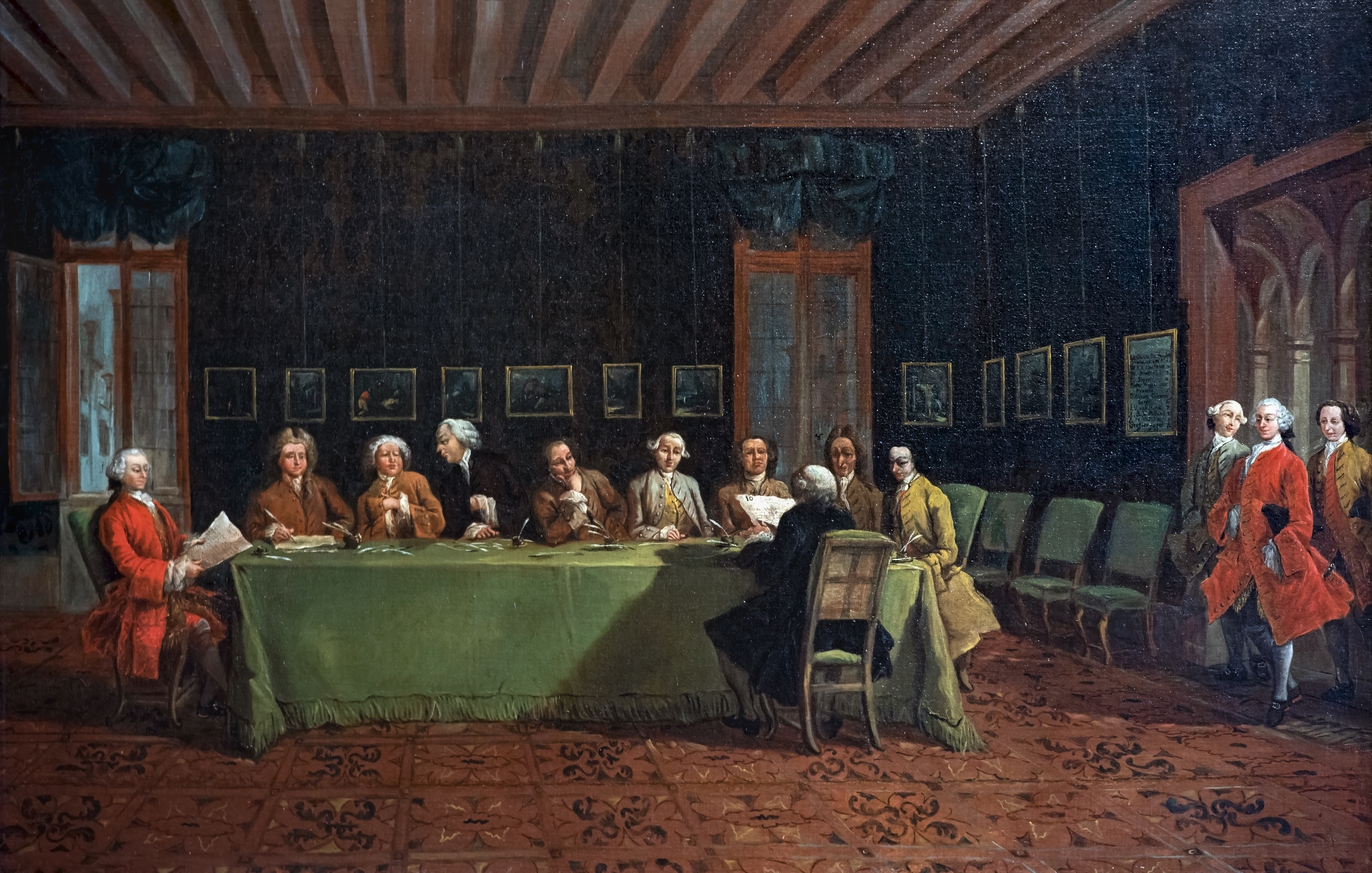 Signing of a trade agreement between the King of Naples, represented by Count Giuseppe de Fauloni Finocchietti (1702-1782), and Holland on 27th of August 1753. From left to right: Giuseppe Finocchiatti di Faulon, Walraven Robbert van Heeckeren, Willem Bentinck, Pieter Steyn, Pieter Mogge, Jan Daniel of Ablaing, Wybrand van Itsma, August Leopold van Pallandt and Joost de Valcke. From behind: Hendrik Fagel.